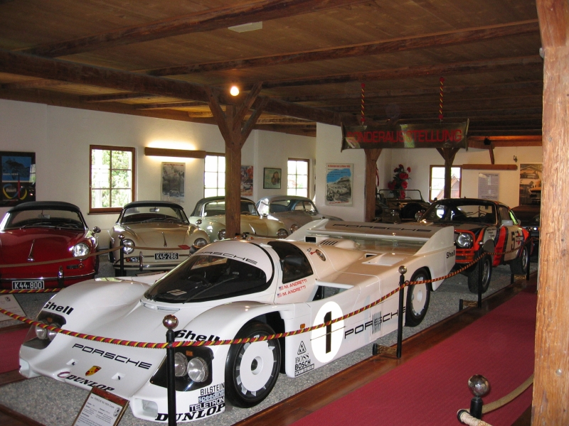 Porsche 962 IMSA Coupe (chassis #001) driven by Mario and Michael Andretti at 1984 Daytona 24Hsee here at This picture was taken at the Porsche museum in Gmünd, Austria, Summer 2006. I took this photo. Category:Photographs by User:BMan1113VR